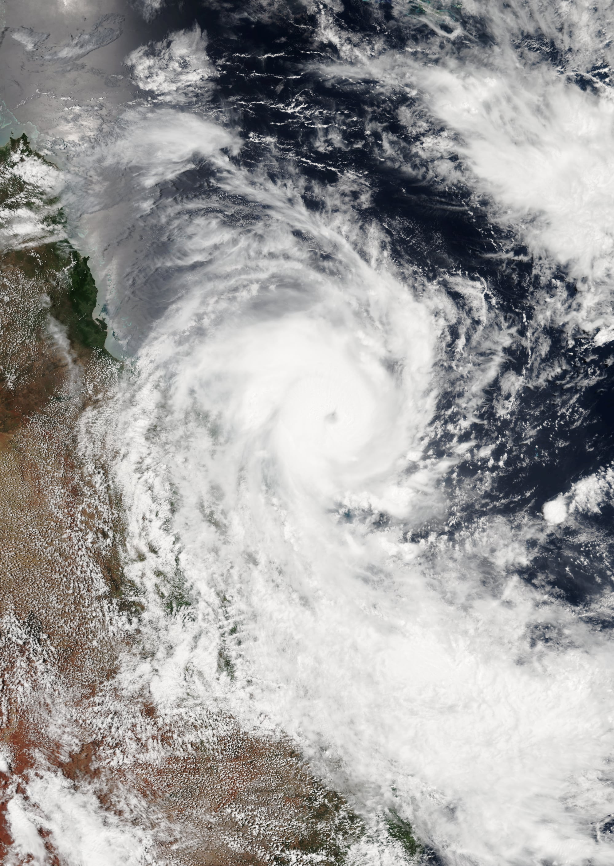 Cyclone Marcia (13P / 14U) during peak intensity near landfall on February 19, 2015